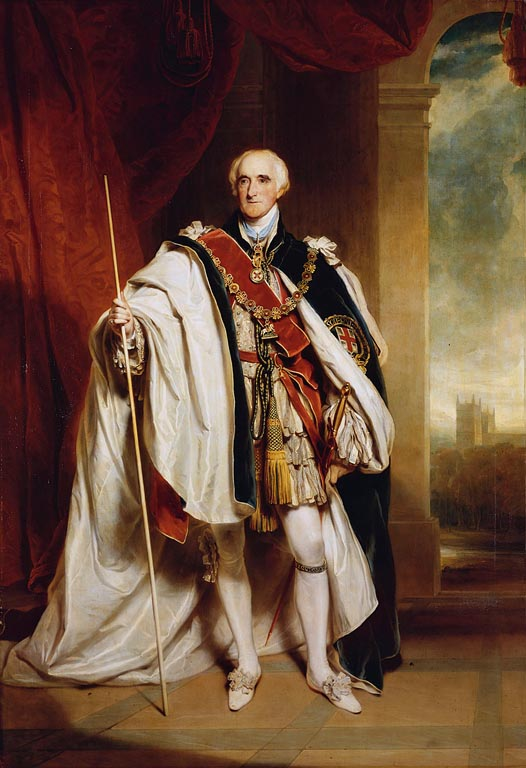 Lord Wellesley in Garter Robes, with the badge of the Grand Master of the Order of St Patrick around his neck, with the chain of the Order of the Garter and a Great George pendant therefrom, and carrying the white staff of office as Lord Steward. Westminster Abbey in background. Presumably dressed for the coronation of King William IV on 8 September 1831.